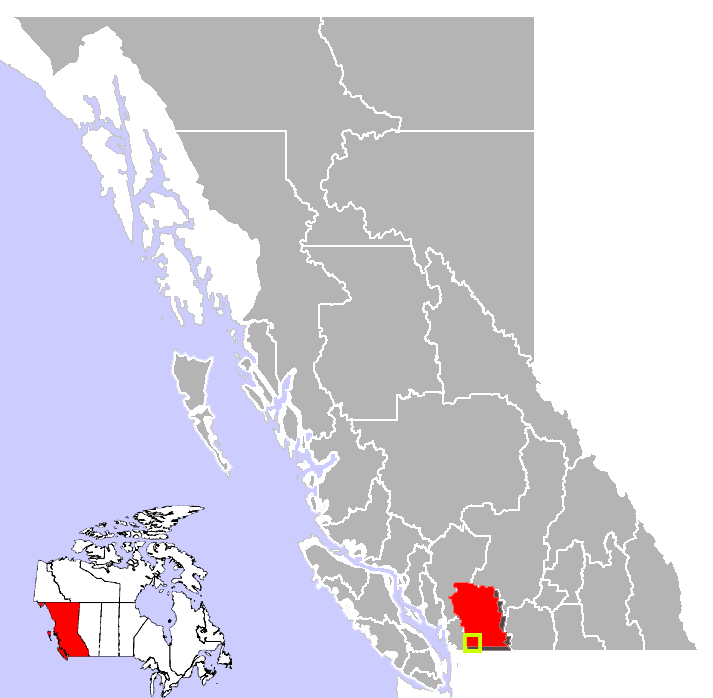 Mission, British Columbia location.